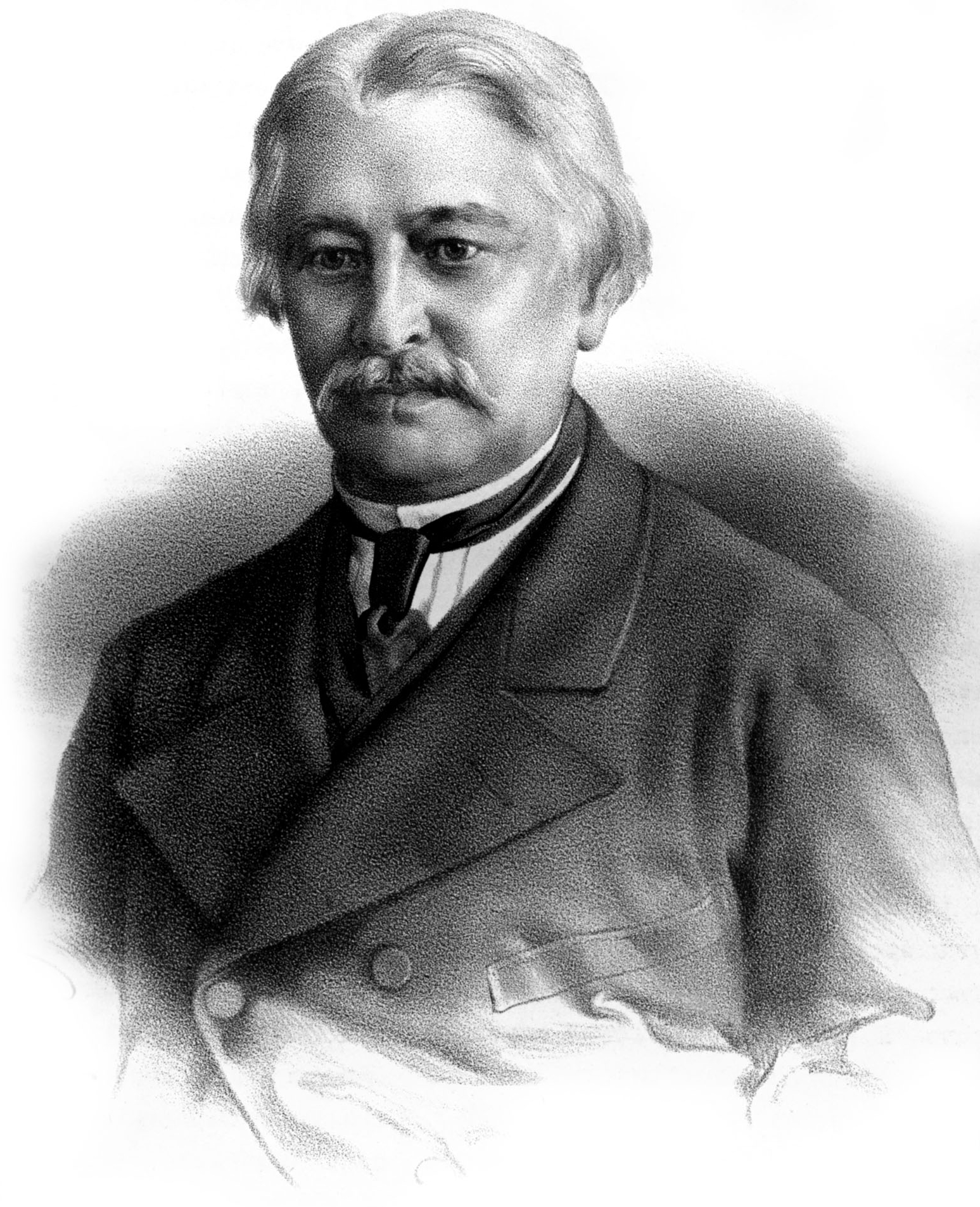 Andrey Kraevsky